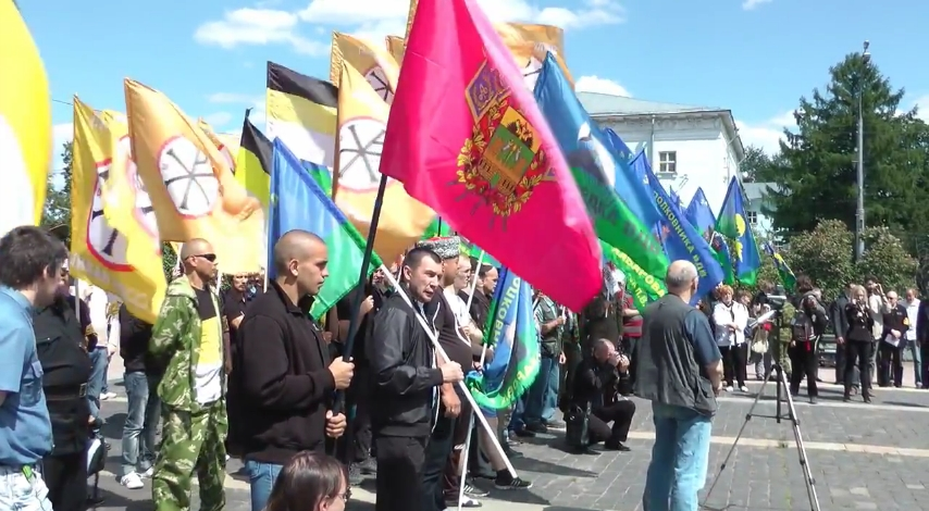 "Free Colonel Khabarov", a civil protest in Moscow on May 26, 2012, held at the Suvorovskaya Square. Airborne veterans alongside with the Russian youth organizations, rallying against detention of legendary Col. Leonid Khabarov, a Soviet military icon of the 1980s.